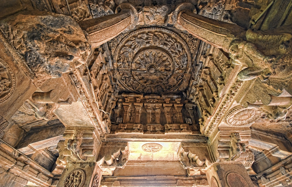 The Durga (Fort) Temple is notable for its semicircular apes, elevated plinth and the gallery that encircles the sanctum. The interior is filled with fascinating carvings. Chamundi Devi trampling the buffalo demon, Narasimha - the half-man, half-female deity. Then there is image of the fearsome Mahishasuramardini or the Mother Goddess Durga destroying the demon Mahisha. The temple appears to be of the late 7th or early 8th century. Then there is image of the fearsome Mahishasuramardini or the Mother Goddess Durga destroying the demon Mahisha.